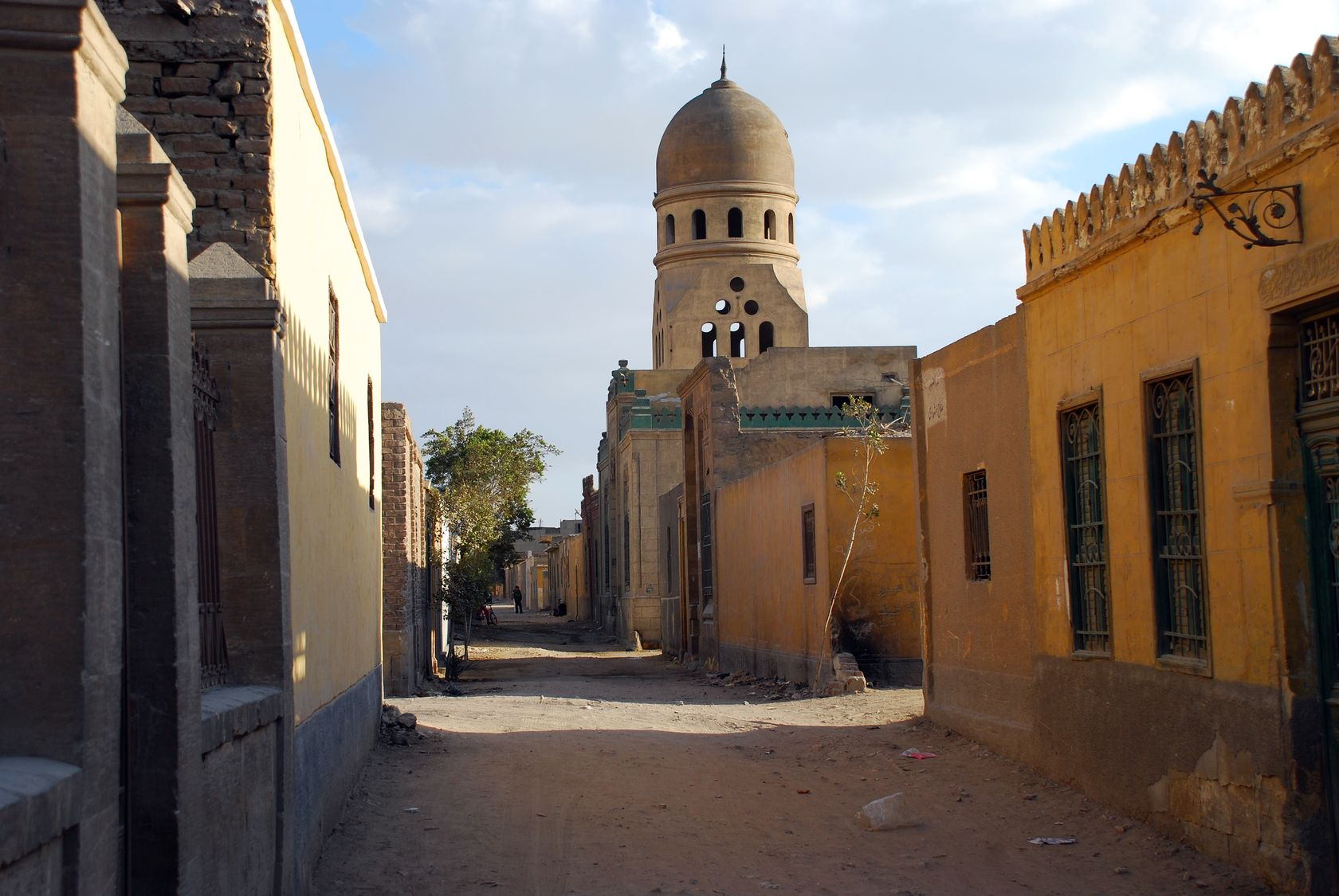 Cairo, City of the Dead, southern cemetary